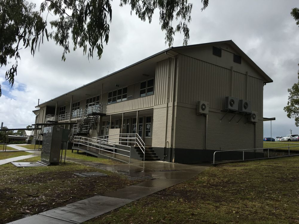 Hawksley Prefabricated School Building, Block B, from NW (EHP, 2016)